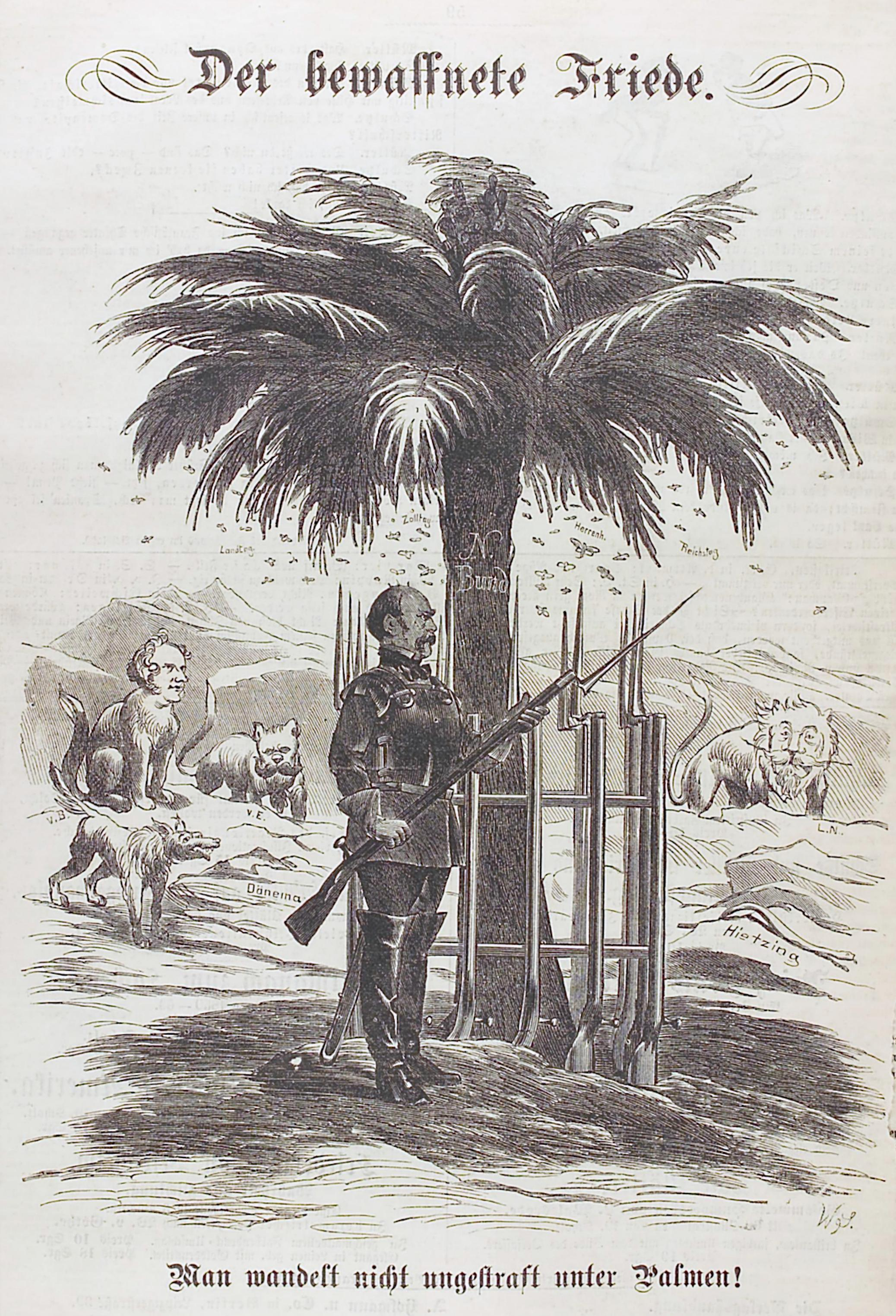 Karikatur, Kladderadatsch.